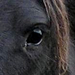 eye of a black horse, cropped square